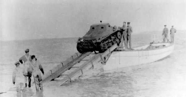 A Marmon Herrington CTLS-3 being tested for flotation.